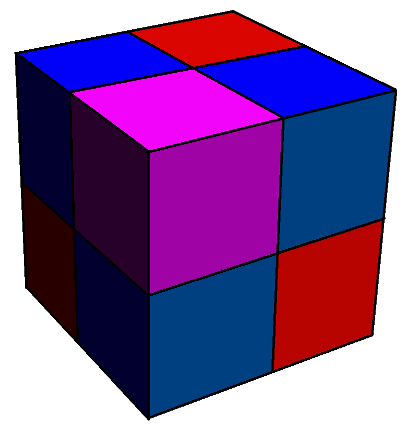 Runcinated cubic honeycomb: Cubic cells become purple cubes. Faces become blue cubes. Edges become red cubes. Vertices become hidden (back) cube.